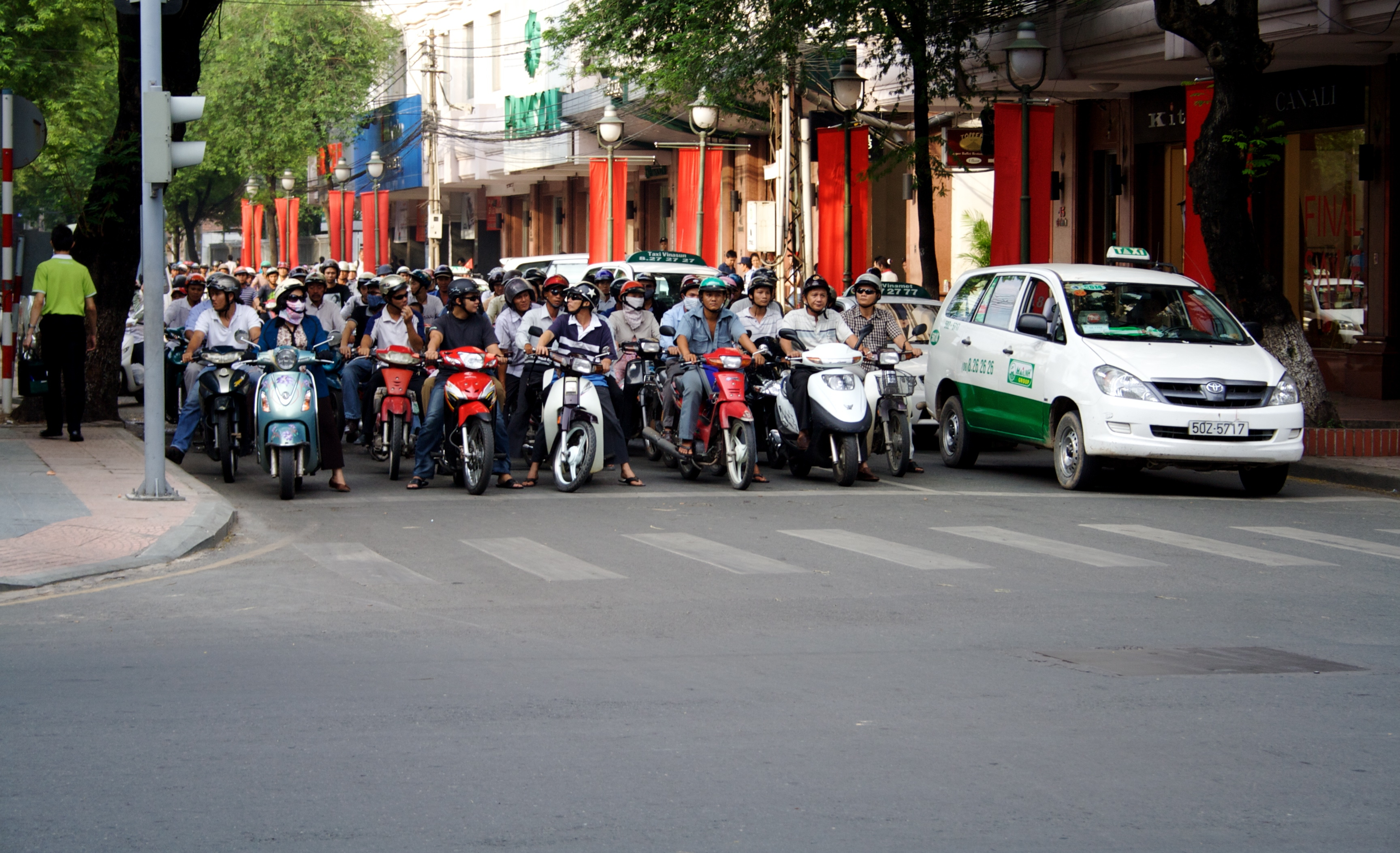 Motorcycles in Ho Chi Minh City